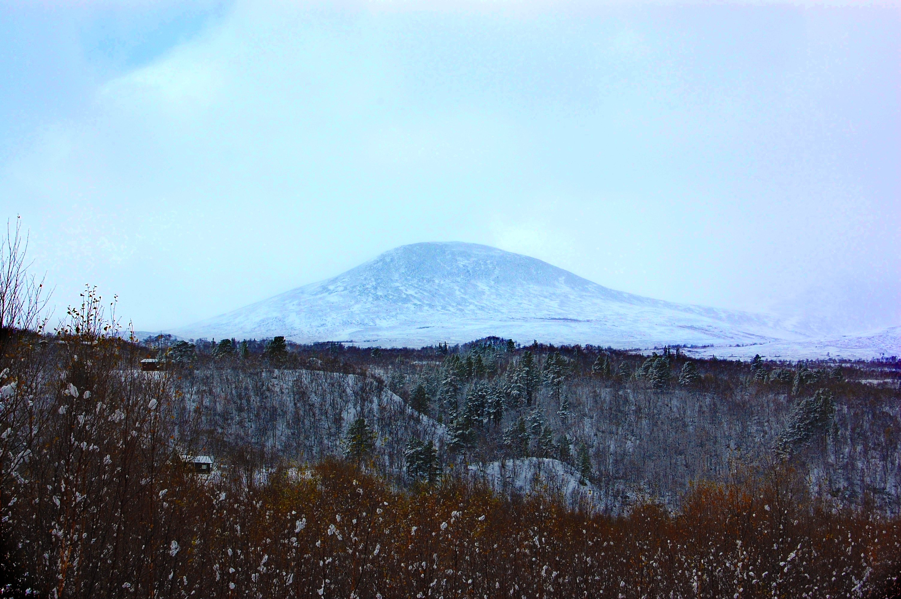 Elgpiggen sean from the East, this is "Veslehøgda" north for Elgpiggen